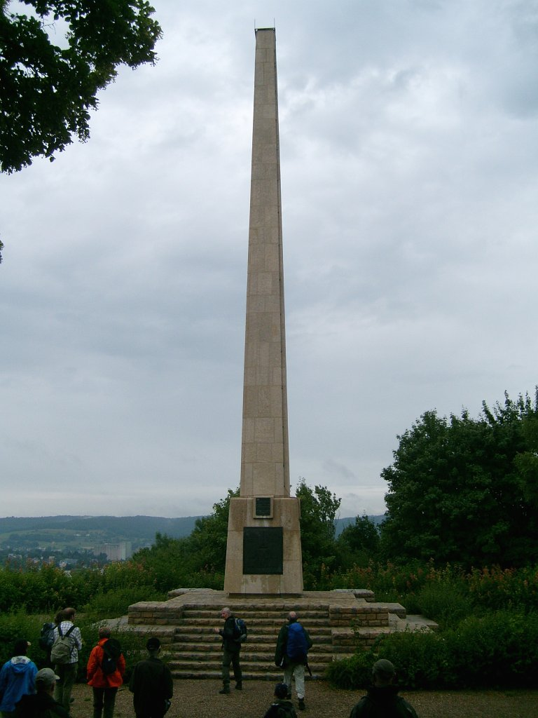 The national monument of independence near Mersch, Luxembourg.